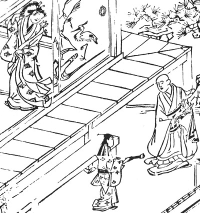 Nikonbō (仁光坊といふ火の事) from the Tonoigusa (宿直草)